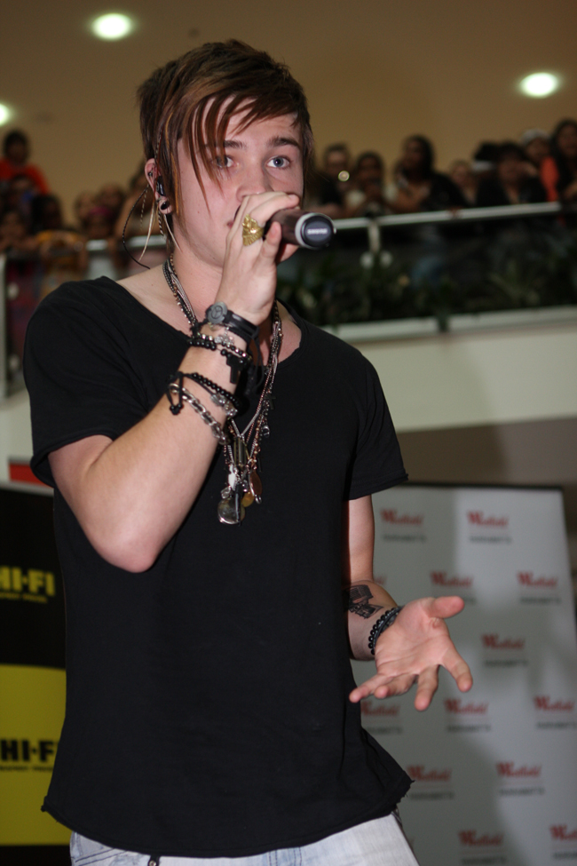 Reece Mastin Performs at Westfield Parramatta in Sydney, December 2011.